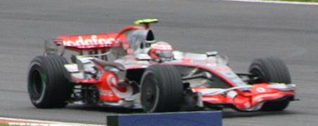 Heikki Kovalainen driving for McLaren at the 2008 Malaysian Grand Prix.